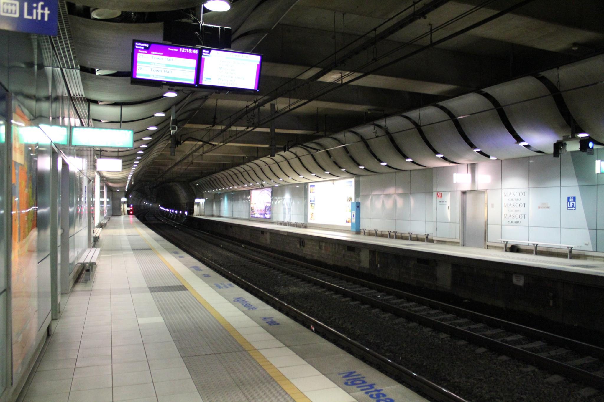 platform 1